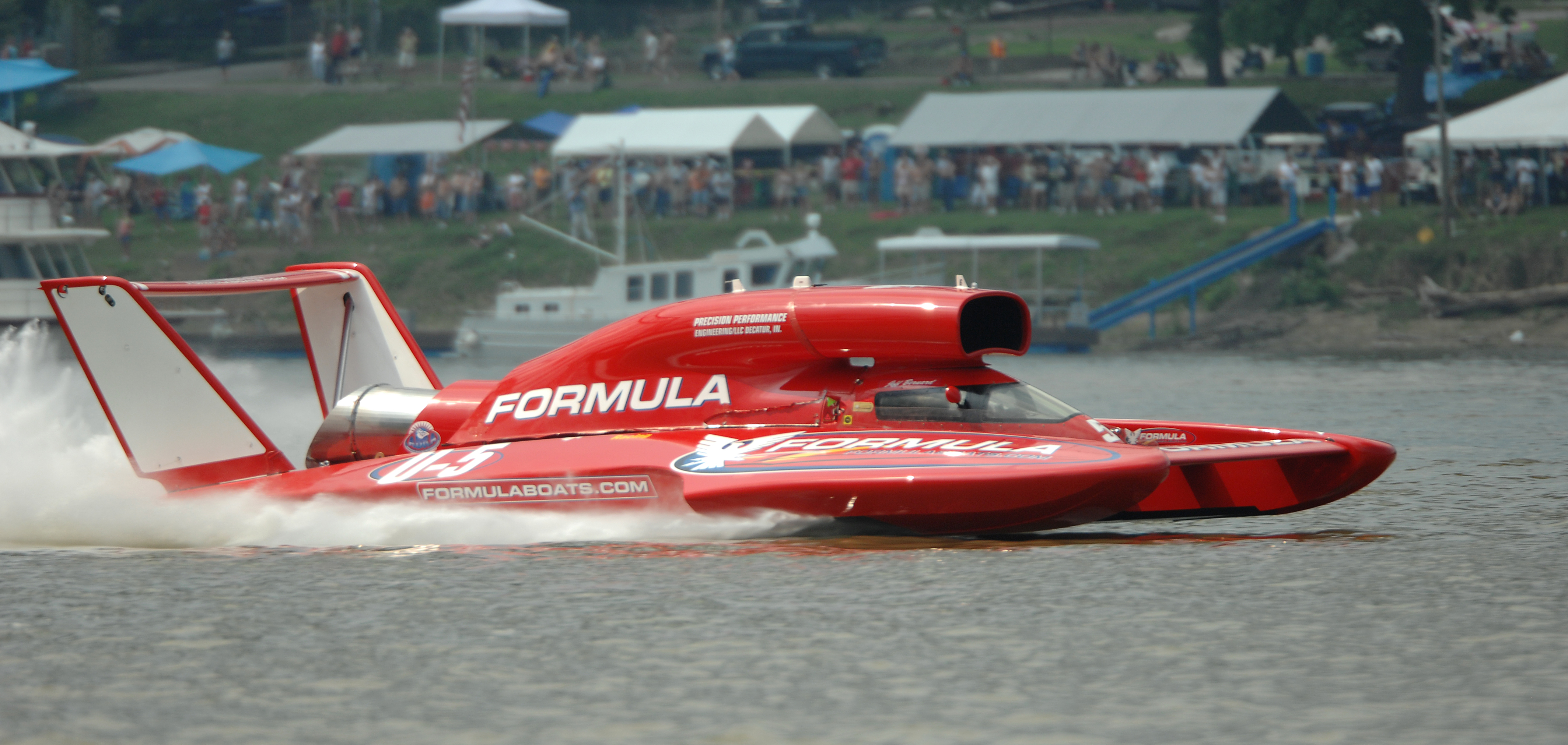 2008 winner of the Madison Regatta, , driven by Jeff Bernard.